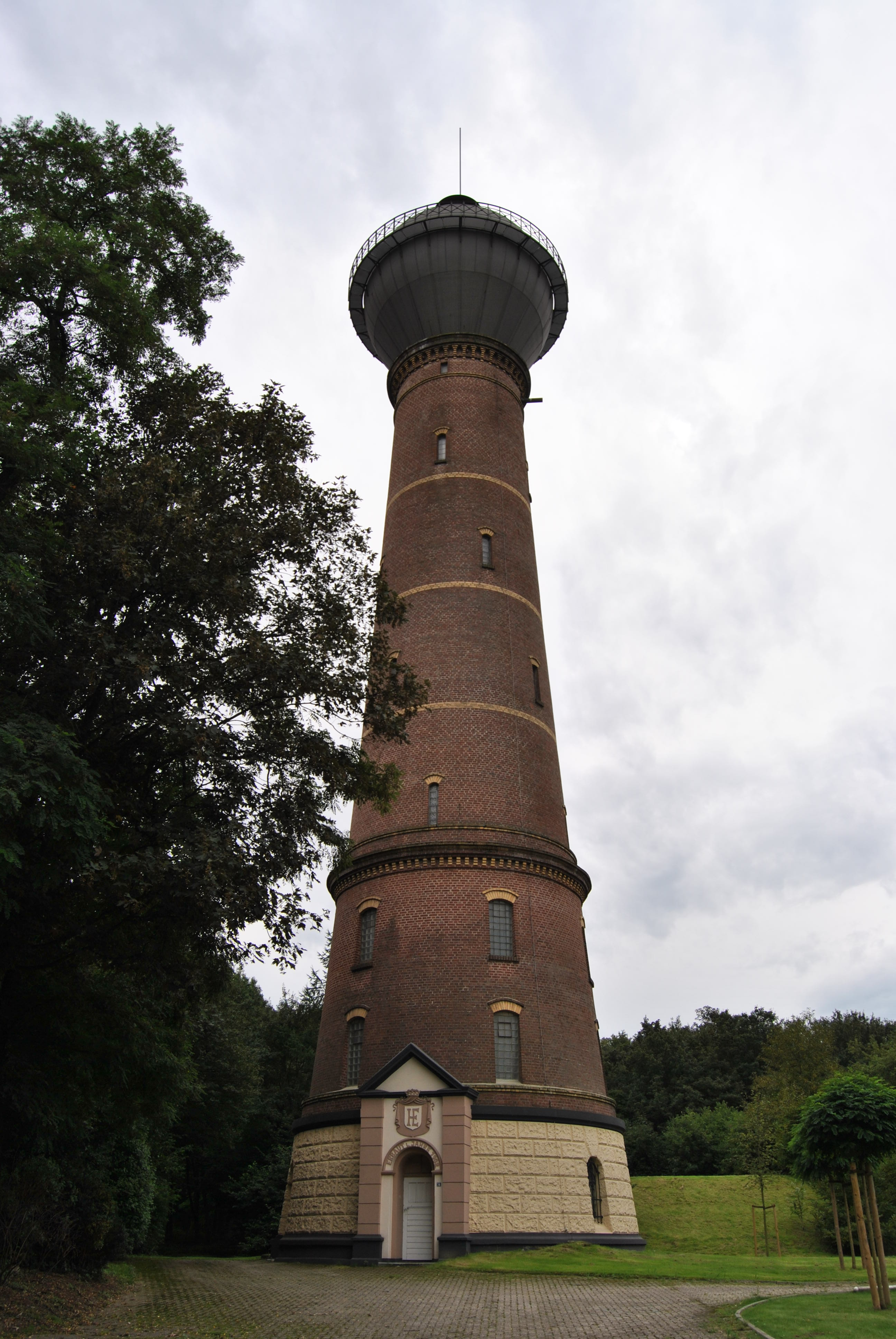 Duisburg (North Rhine-Westphalia, Germany) – Rheinhausen-Bergheim – water tower This image shows a heritage building in Germany, located in the North Rhine-Westphalian city Duisburg (no. ZA178). This photograph was taken with a Nikon D3000